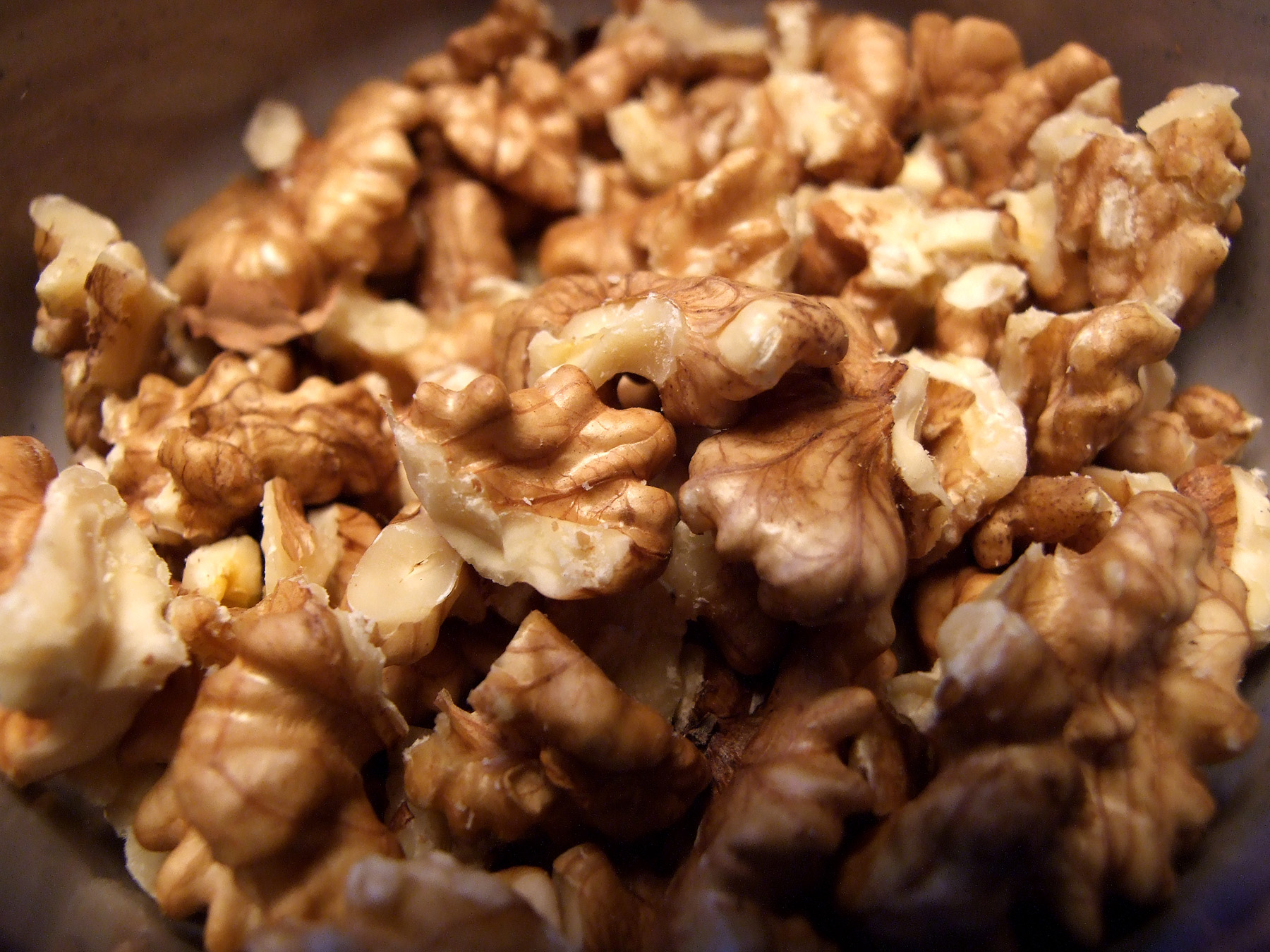 Juglans regia